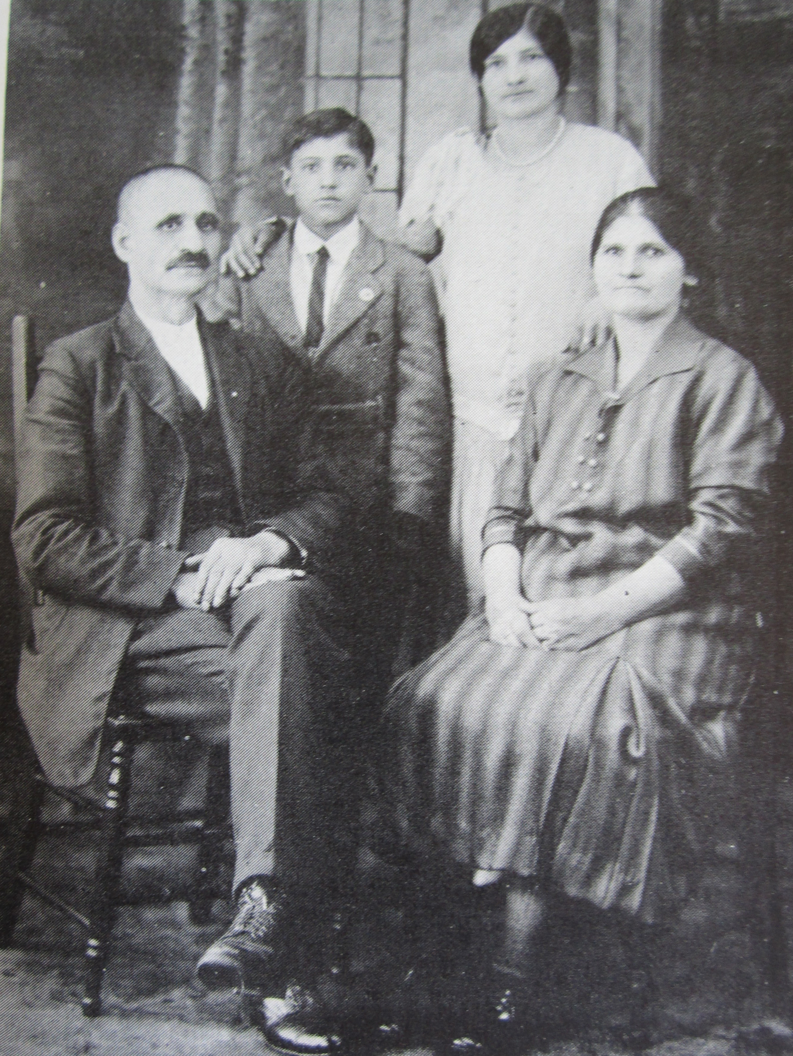 Labro Filev (Filyovichin) and family, c. 1927, Toronto